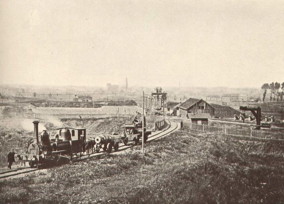 Transport of a connon "Krupp"